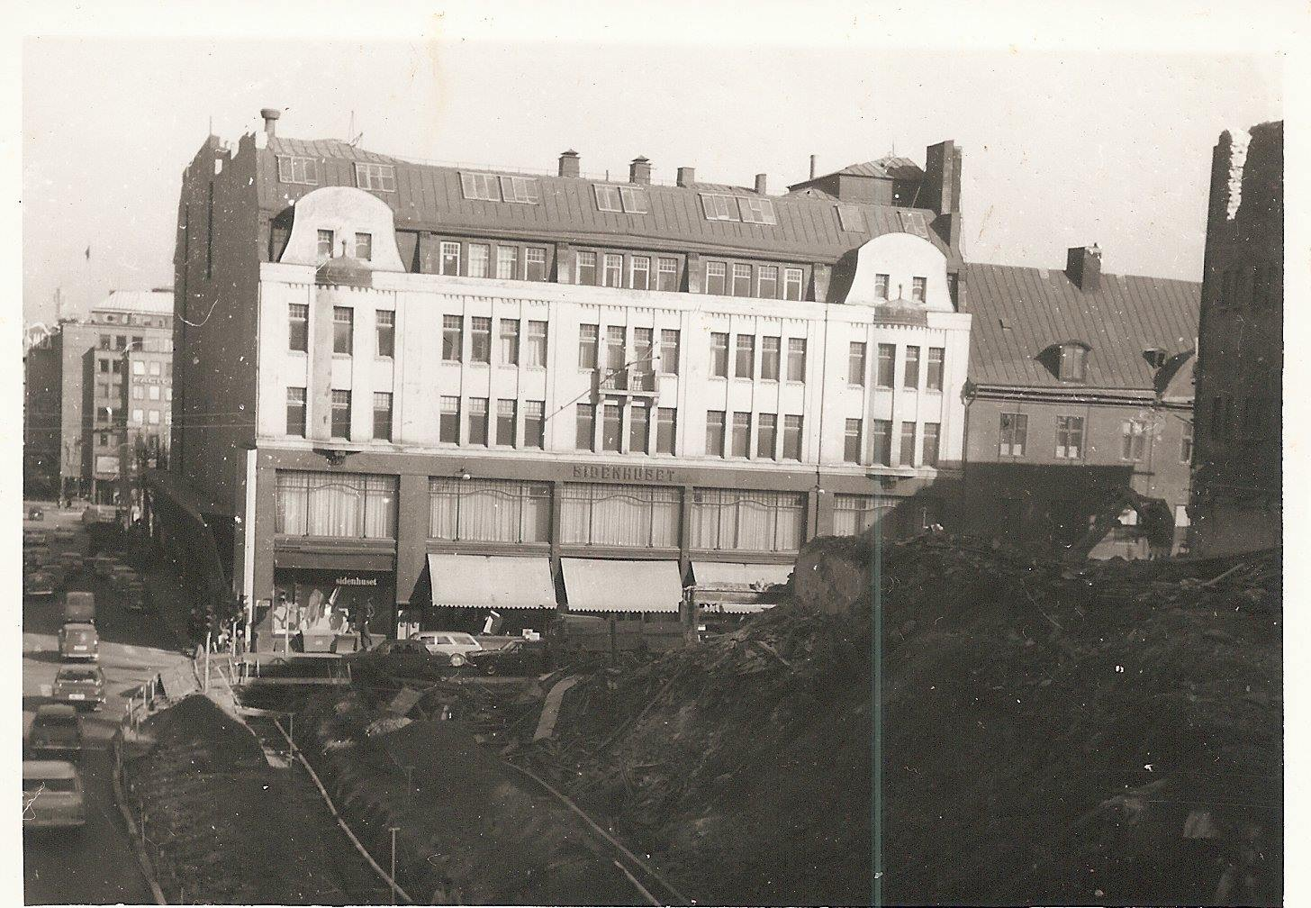 Sidenhuset - building demolished in 1969.